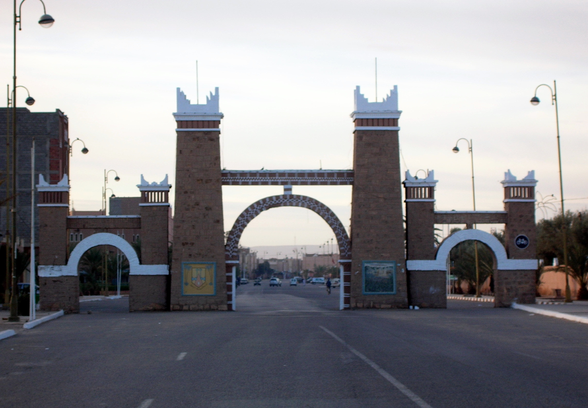 City of Zagora, Morocco